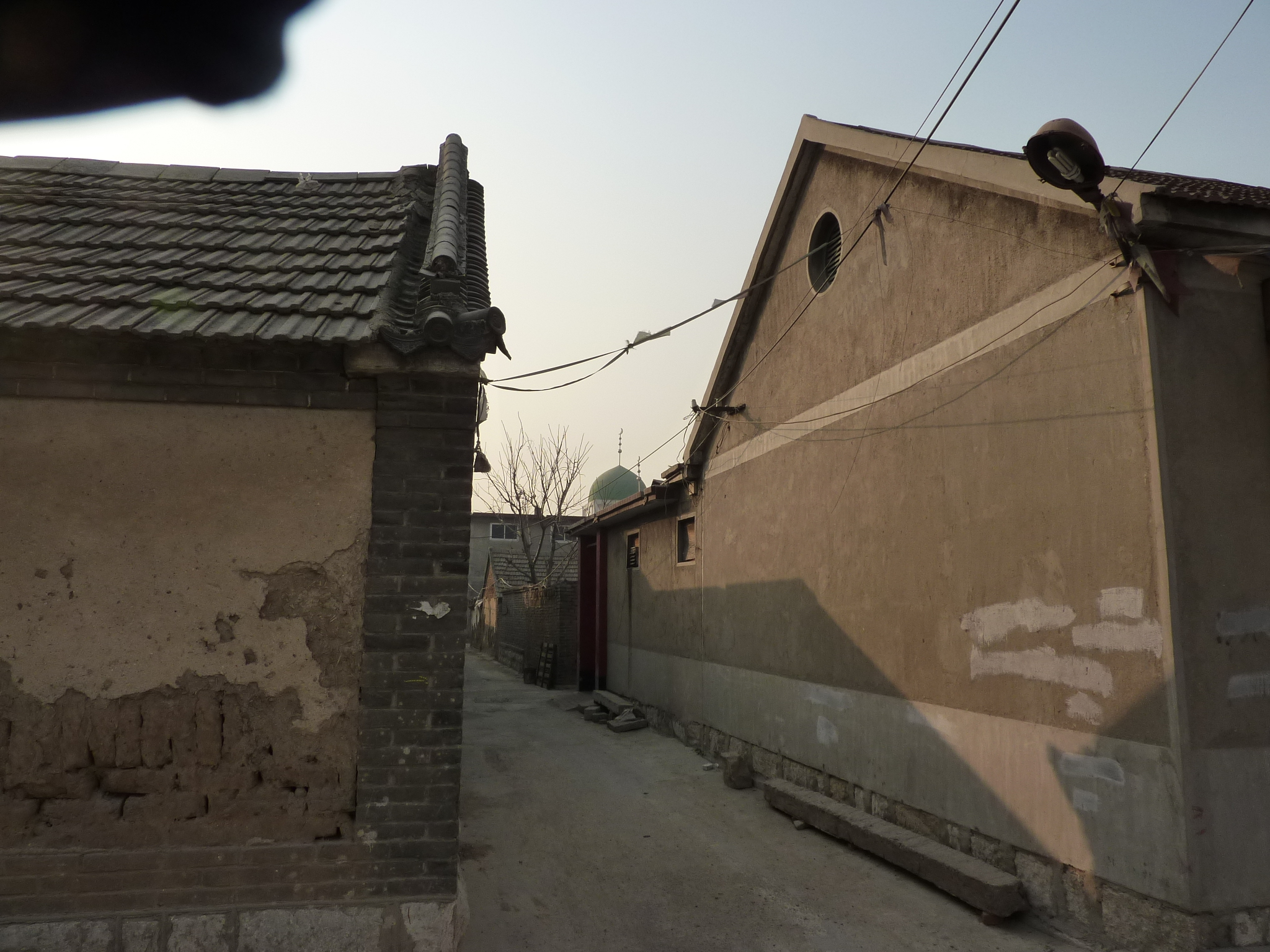 A small lane in a residential neighborhood in the Xiguan area of Qufu, with the domes of the Qufu Mosque seen in far background.